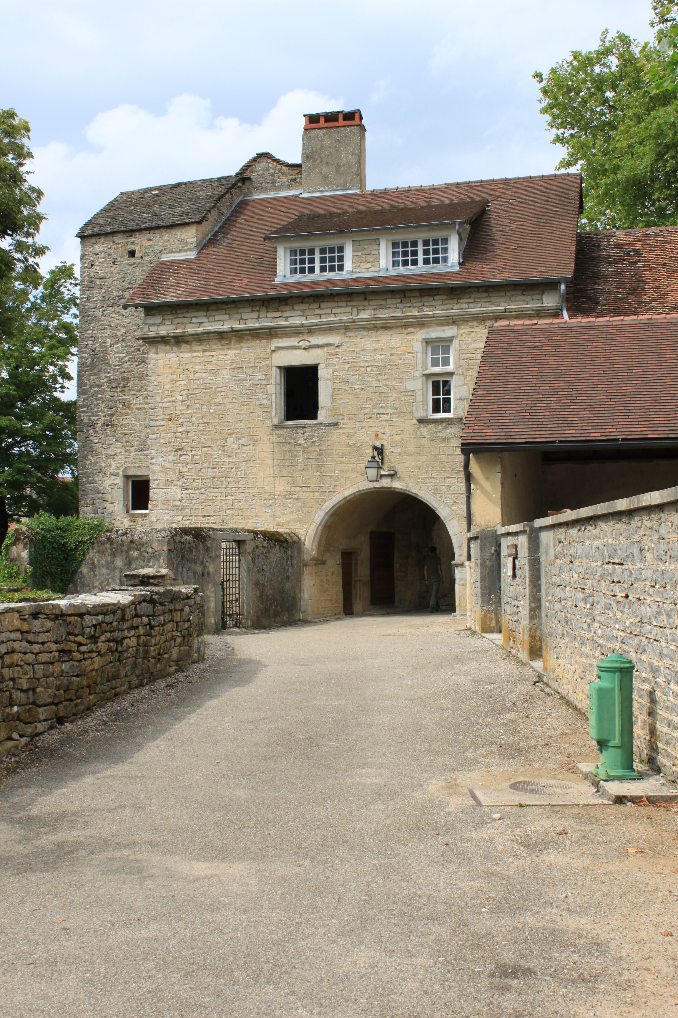 Château-Chalon, Jura, France